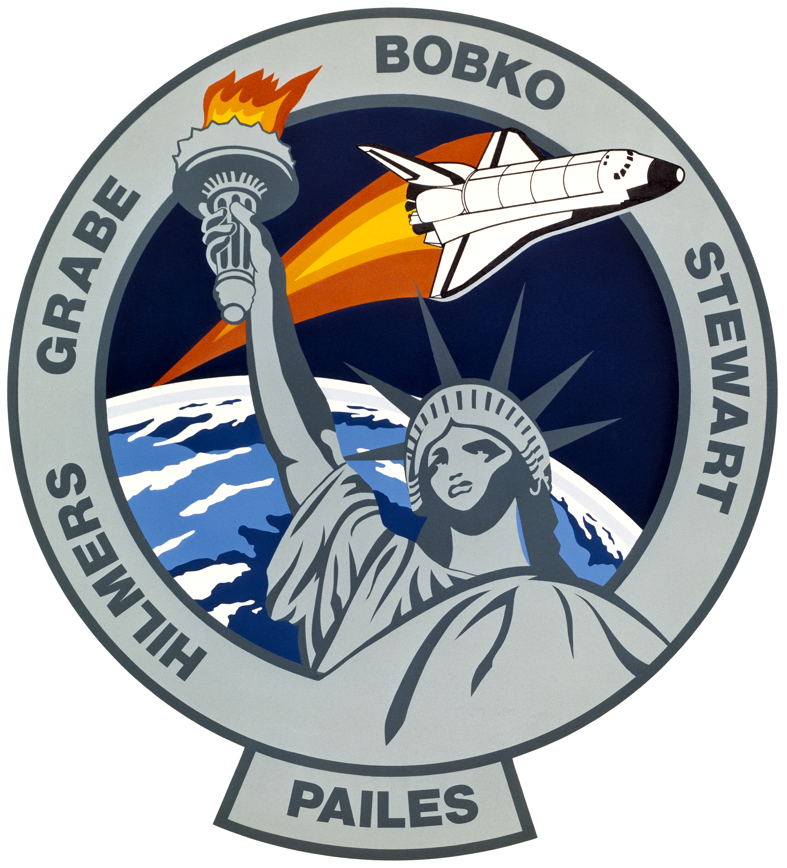 STS-51-J Mission Insignia The 51-J mission insignia, designed by Atlantis's first crew, pays tribute to the Statue of Liberty and the ideas it symbolizes. The historical gateway figure bears additional significance for Astronauts Karol J. Bobko, mission commander; and Ronald J. Grabe, pilot, both New York Natives.